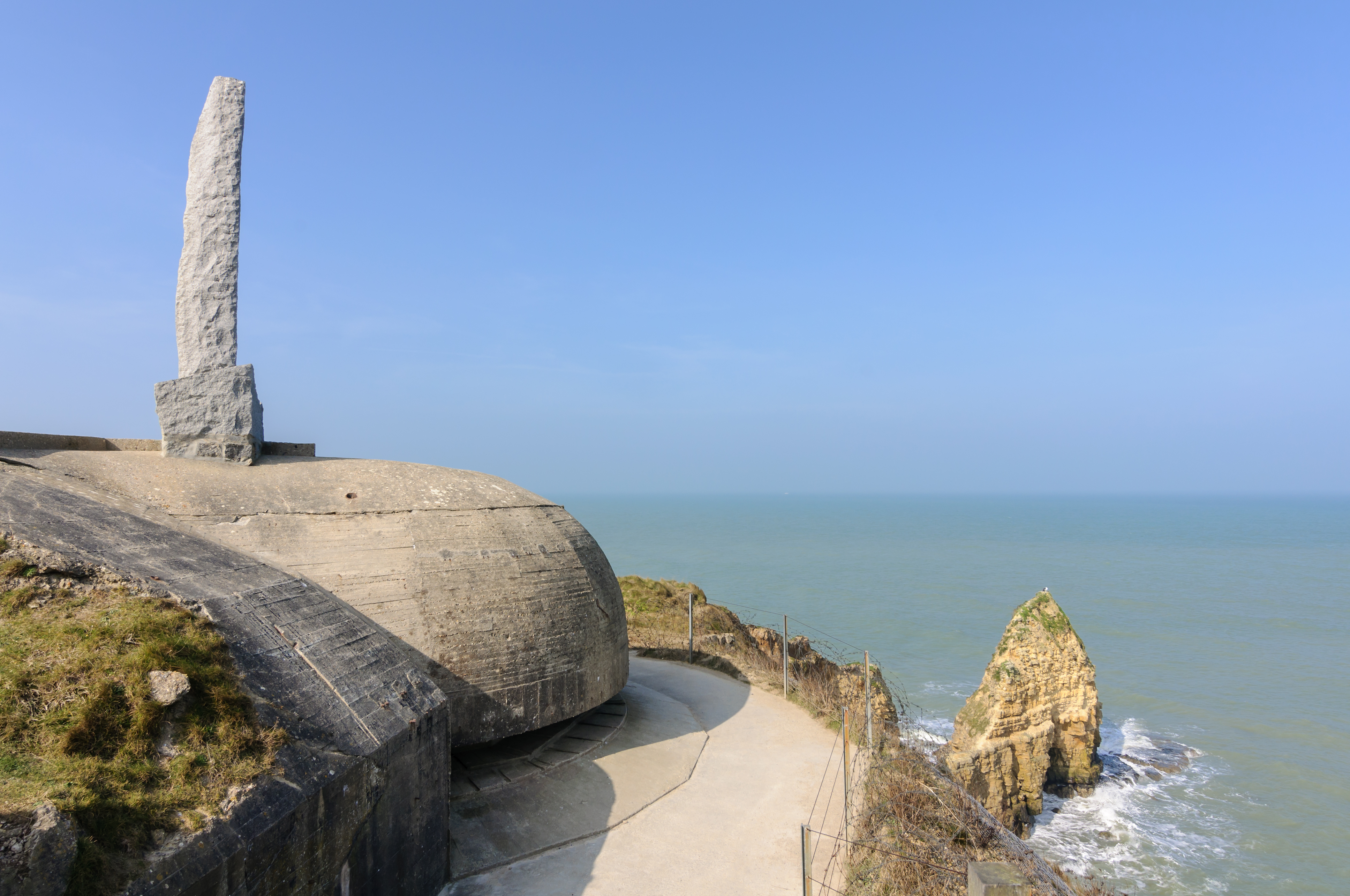 Site of Pointe du Hoc, one of the D-Day battlefields during Operation Overlord in World War II (Calvados, Basse-Normandie, France). Observation bunker H636a.